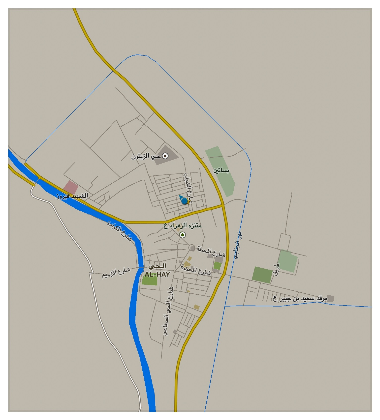 مدينة قضاء الحي- واسط-العراق